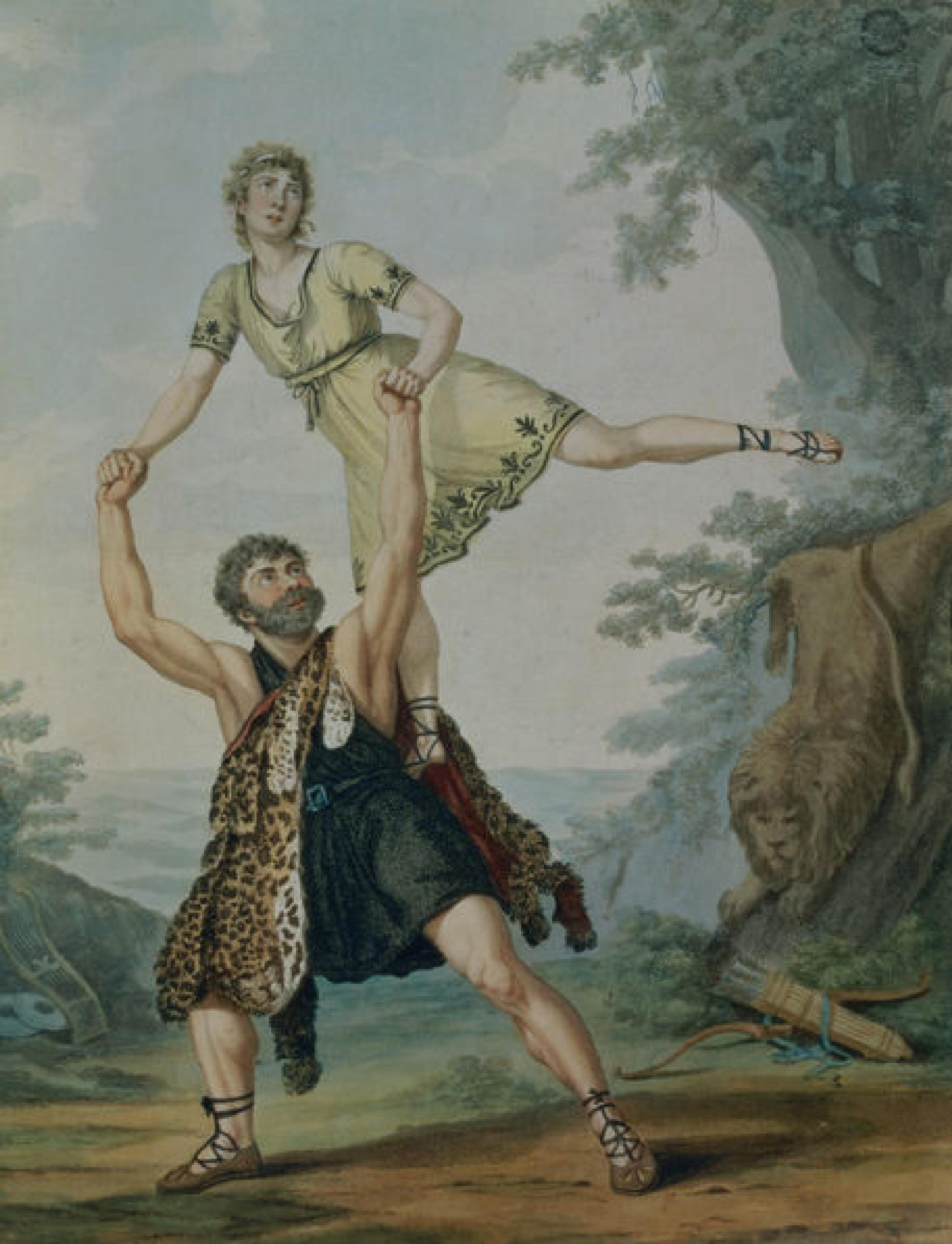 André-Jean-Jacques Deshayes as Achilles and James Harvey d'Egville as Mentor in a scene from the ballet-pantomime Achille et Diedamie from a painting by Antoine Cardon. Deshayes is wearing a Greek tunic, not female costume as stated on the source website as well as elsewhere. This is one of the earliest depictions in art of a ballet lift.